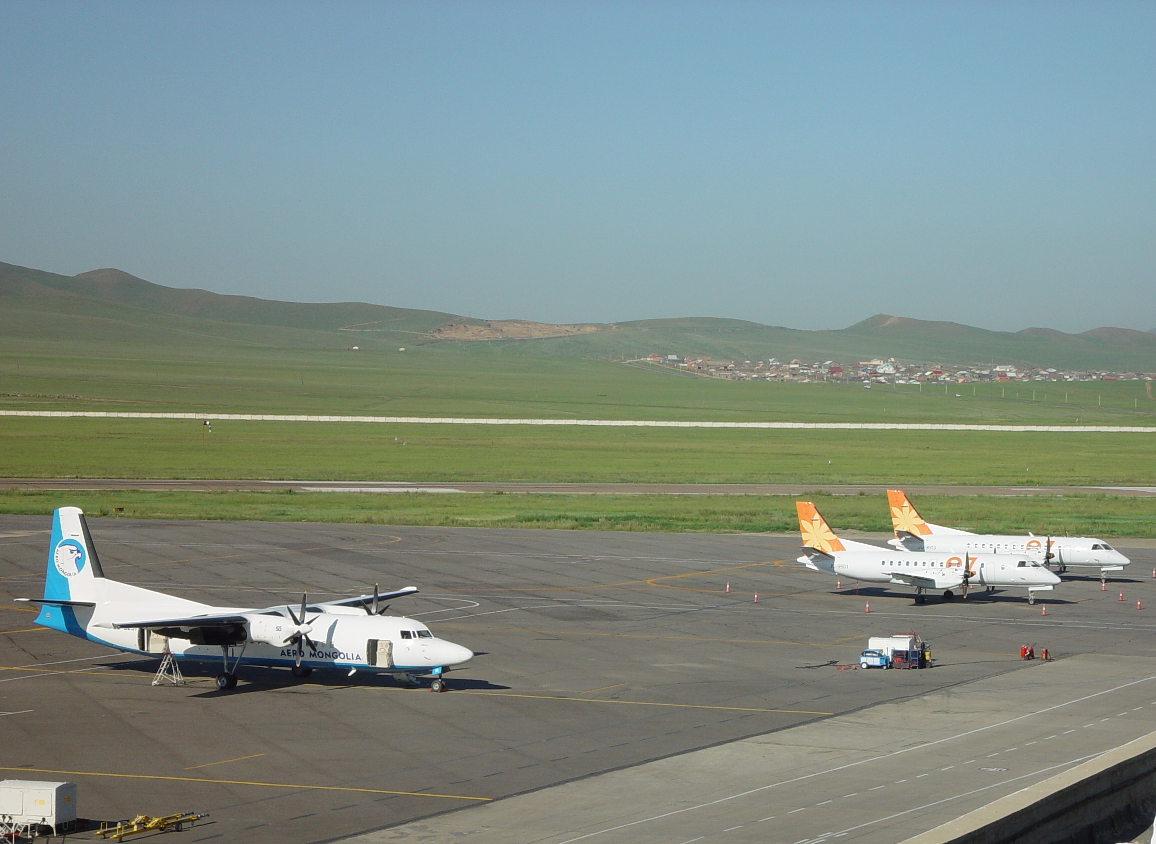 Aircrafts of two Mongolian domestic airlines (Aeromongolia's Fokker-50 on right hand side and Eznis Airways' two Saab-340s on left hand side) in ULN